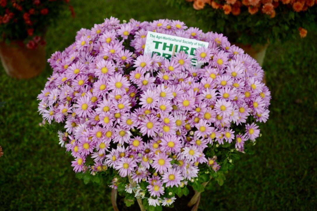 Flowers